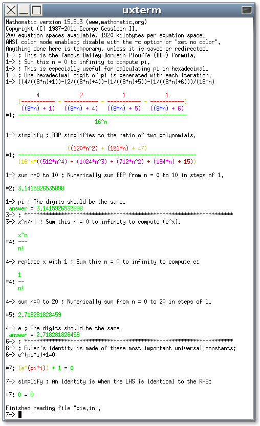 Screenshot of Mathomatic in a uxterm window. Author: George Gesslein II source URL: license: Public Domain screenshot I made under Gnome and Ubuntu Linux.